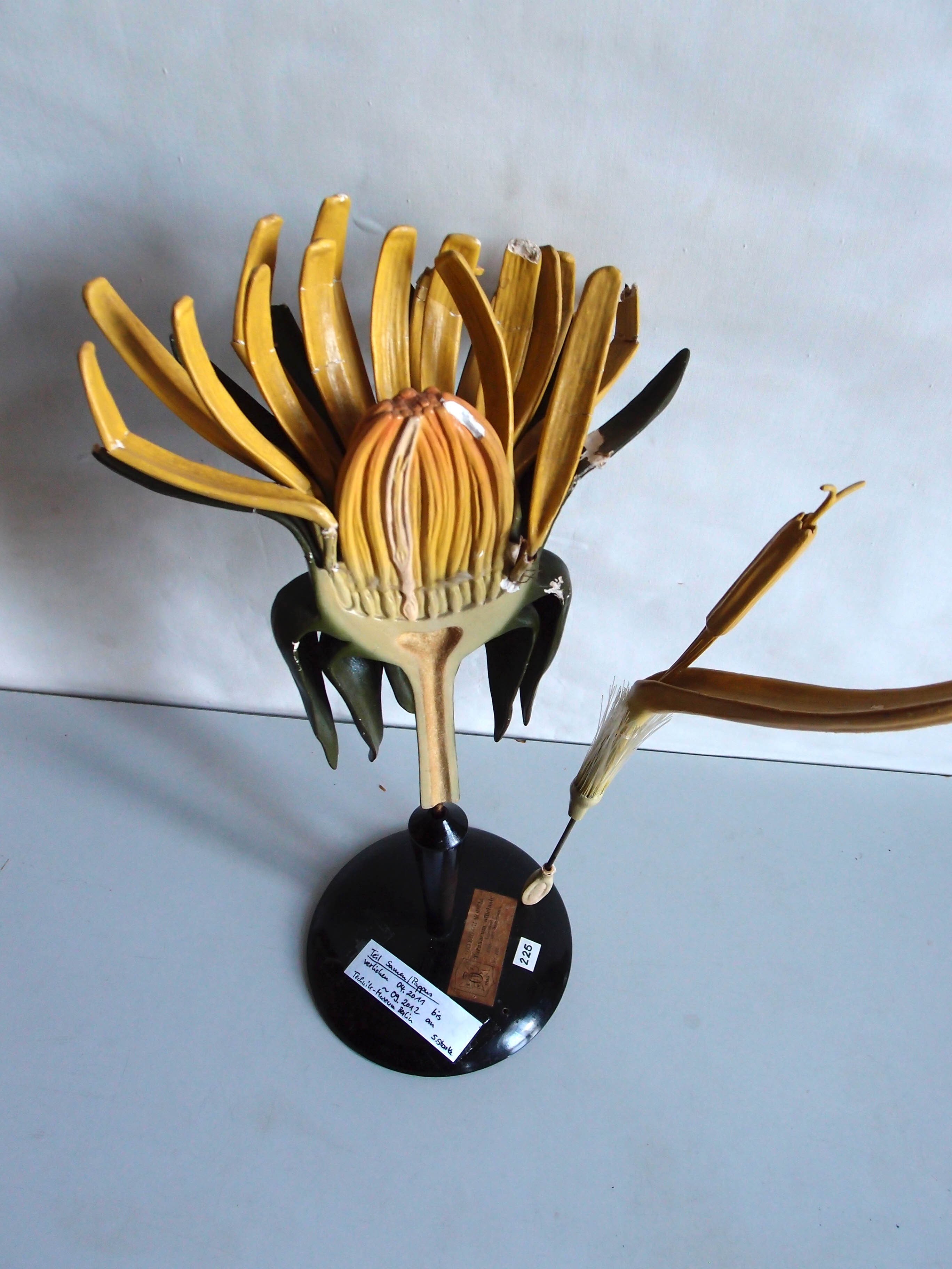 Model from the collection of the Botanical Museum in Greifswald, Germany. . see also for more information on the models